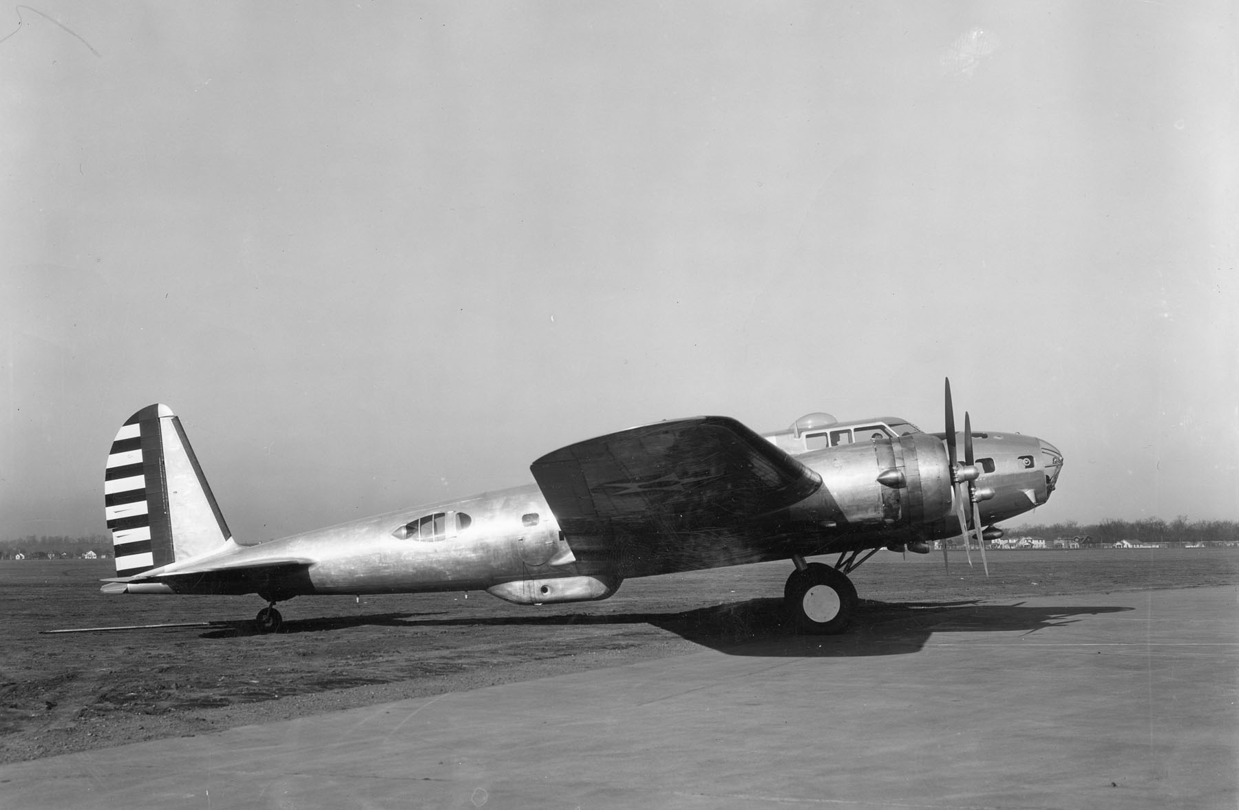 Early B-17D at Wright Field. The "D" model was the last B-17 series to have a small "shark-fin" tail and underside "bathtub" gun position. (U.S. Air Force photo)